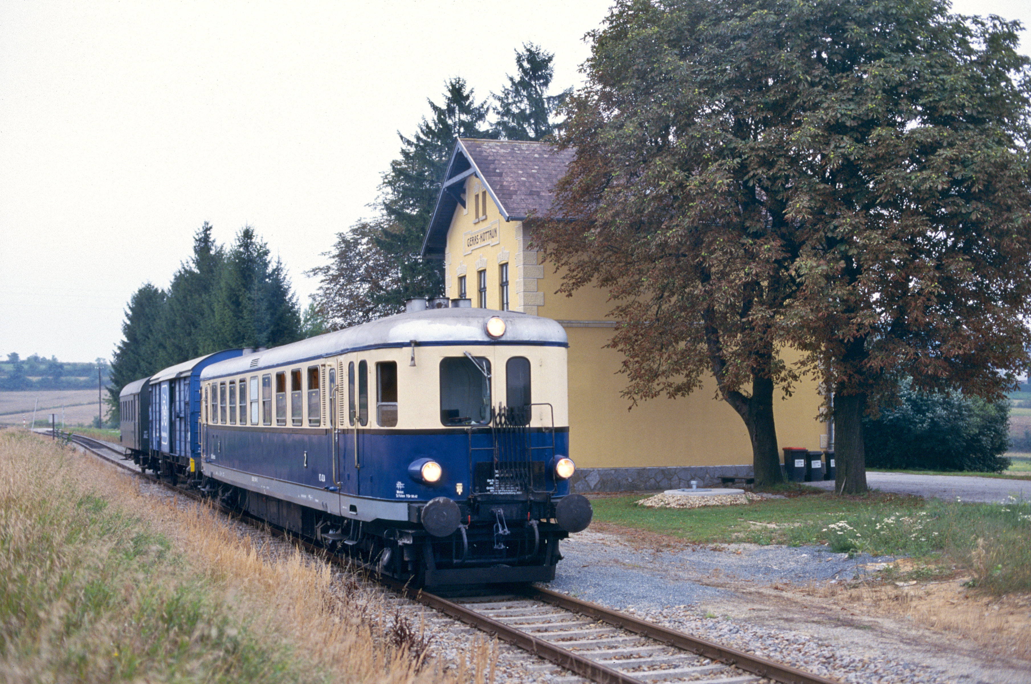 Heritage diesel-electric railcar 5042.14 with the "Reblaus-Express" at Geras-Kottaun station on the Retz – Drosendorf line.